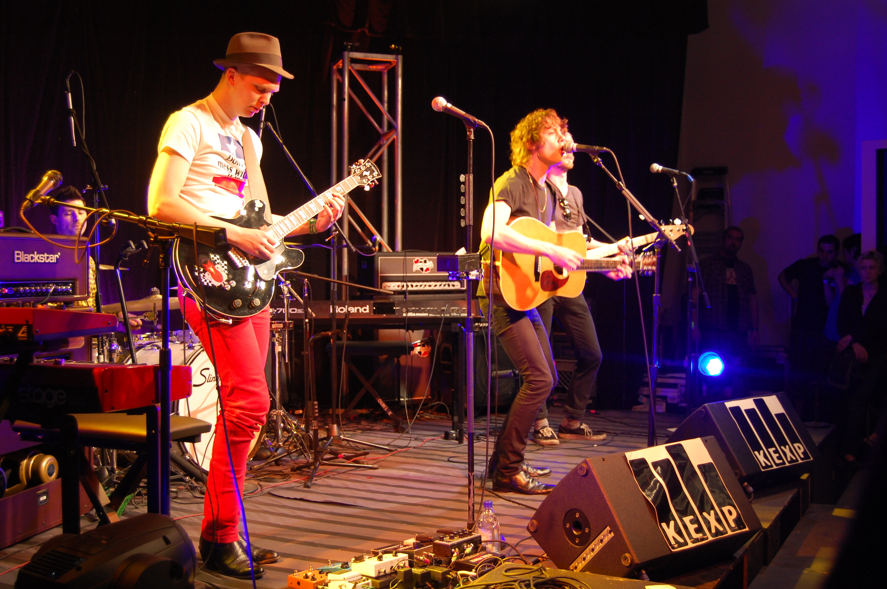 Razorlight performing for Seattle radio station KEXP at the South by Southwest festival in Austin, TX.